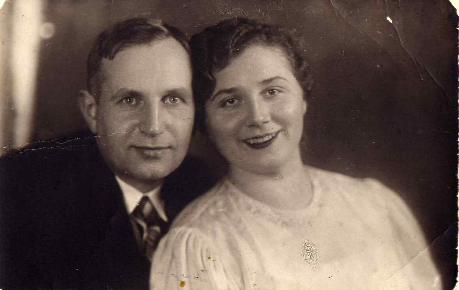 Родители композитора Татьяны Смирновой Владимир Евгеньевич Шульц и Александра Николаевна Константинова